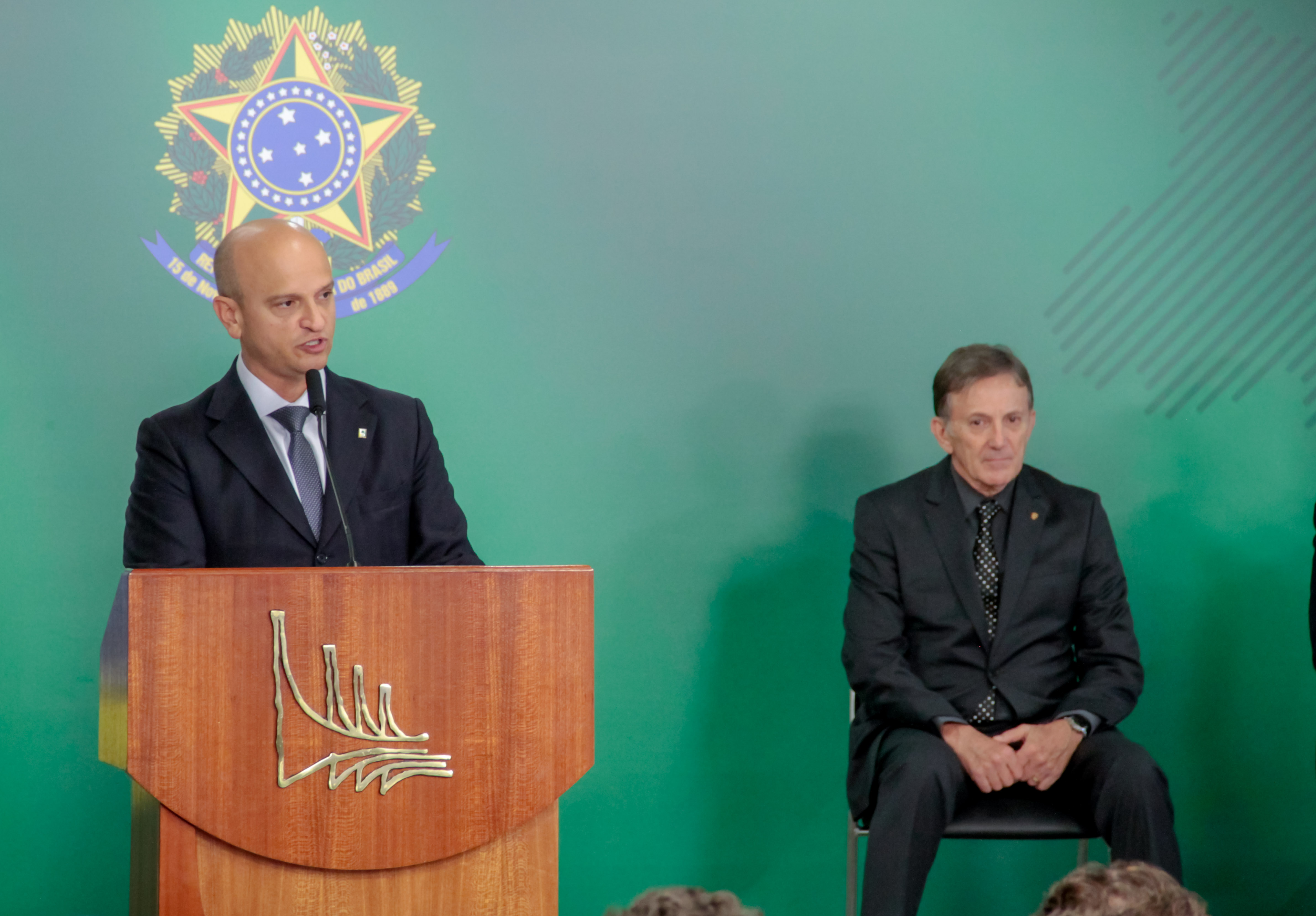 Paulo Lucon, presidente da CEP, discursando na cerimônia em que recebeu o cargo. Ao fundo, o ministro-chefe da Secretaria-Geral da Presidência, Floriano Peixoto